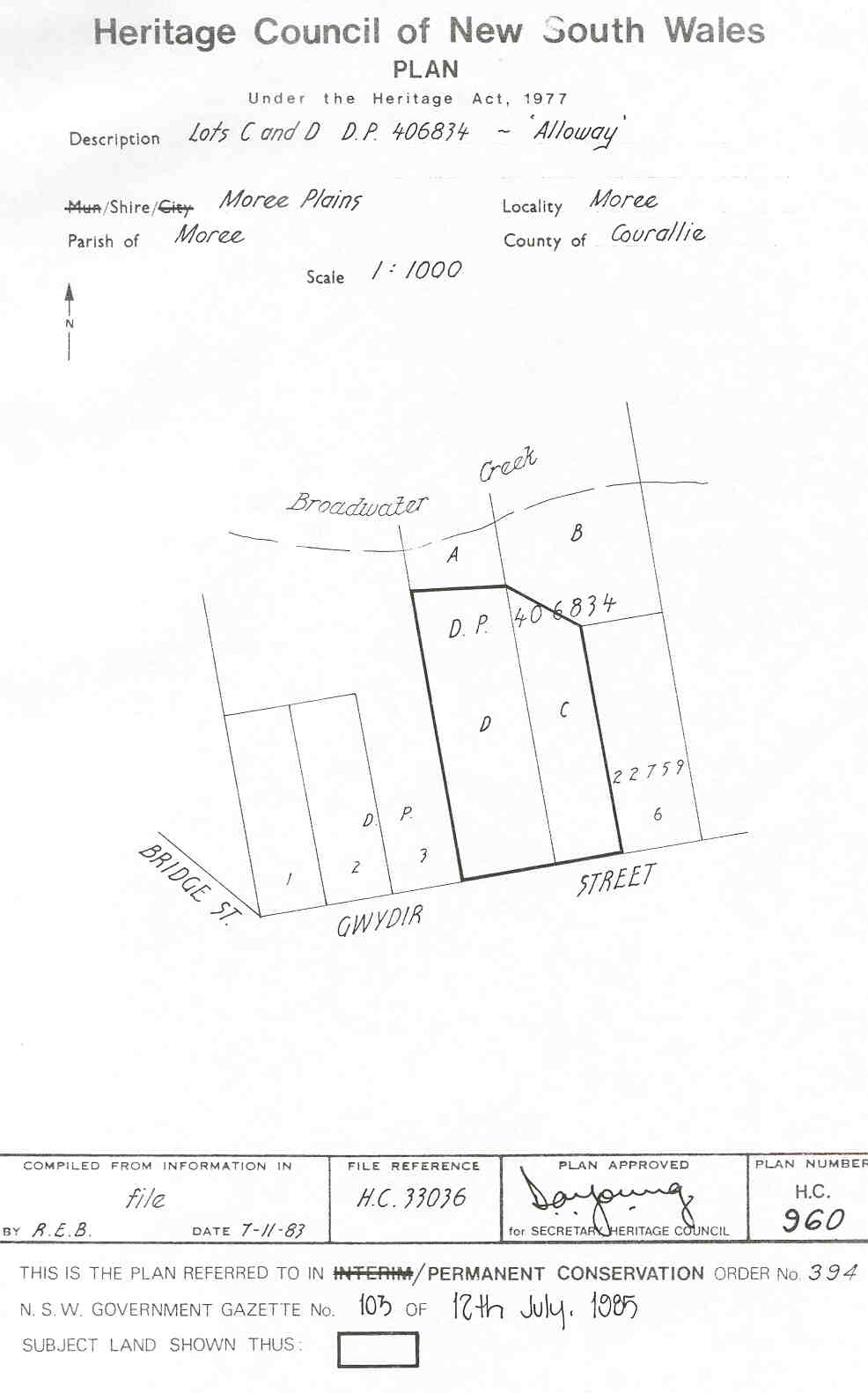 Alloway (cottage): PCO Plan Number 394